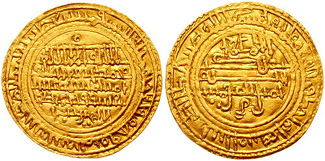 SPAIN, Almoravids. Ali bin Yusuf. 1106-1142. AV Dinar (4.18 gm). Al Mariya (Almería) mint. Dated AH 531 (1138/9 AD). Citing his son Sir bin Ali. Legends Legends. Hazard 358. Good VF. Ex Spink 154 (12 July 2001), lot 545; Reginald Huth Collection (Sothby's, 14-17 June 1927), lot 247 (part of).